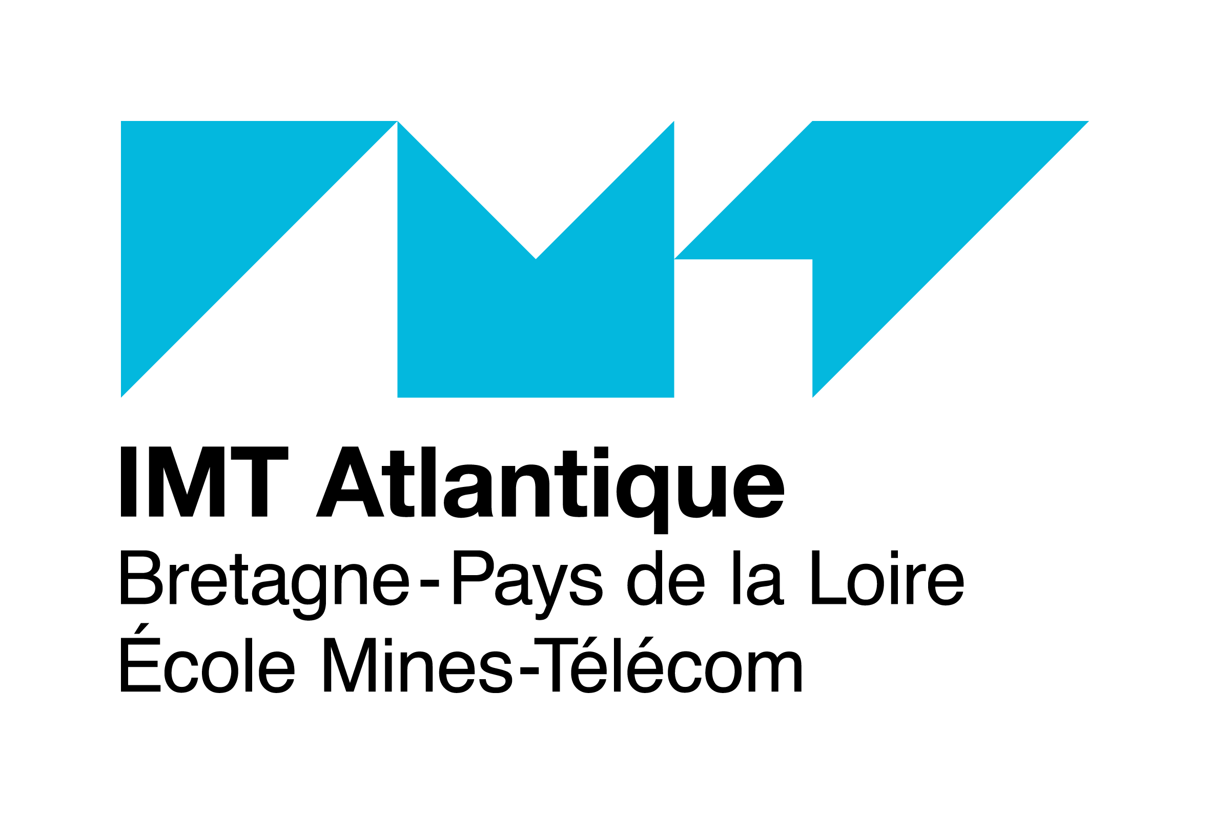 IMT Atlantique is a leading general engineering school and is internationally recognized for its research.